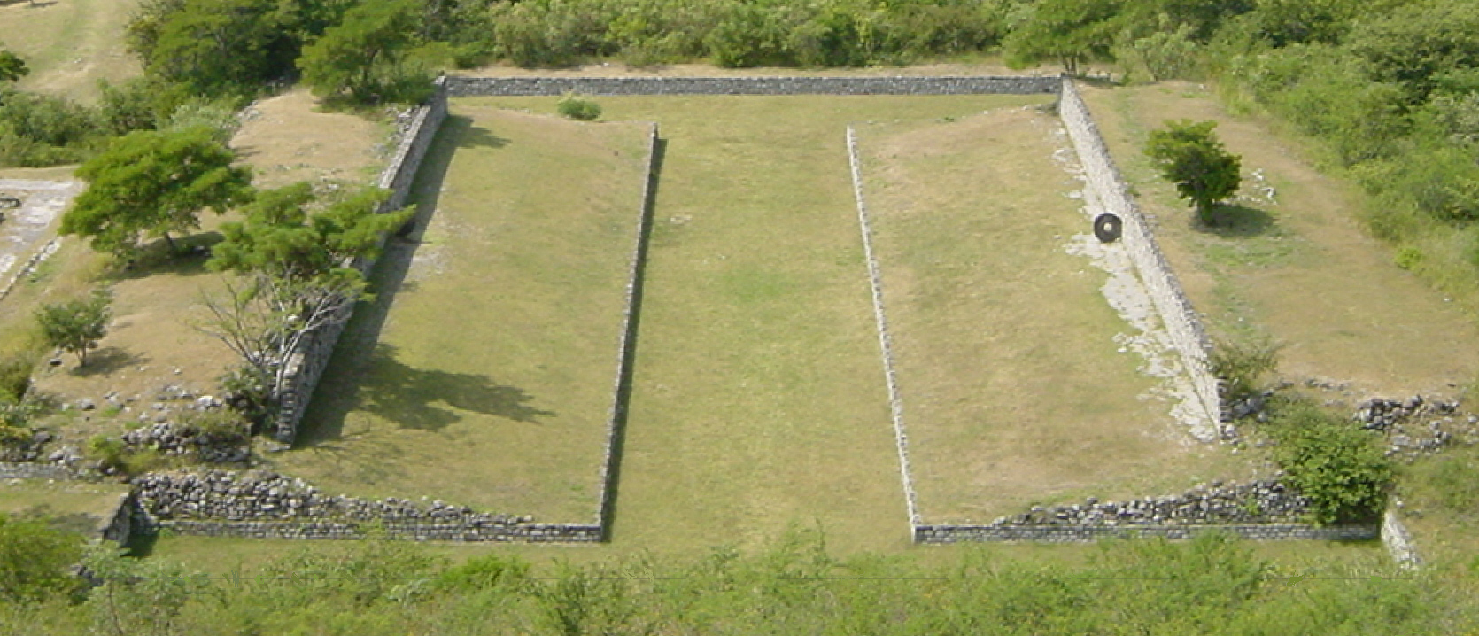 Photo of the ballcourt at Xochicalco.